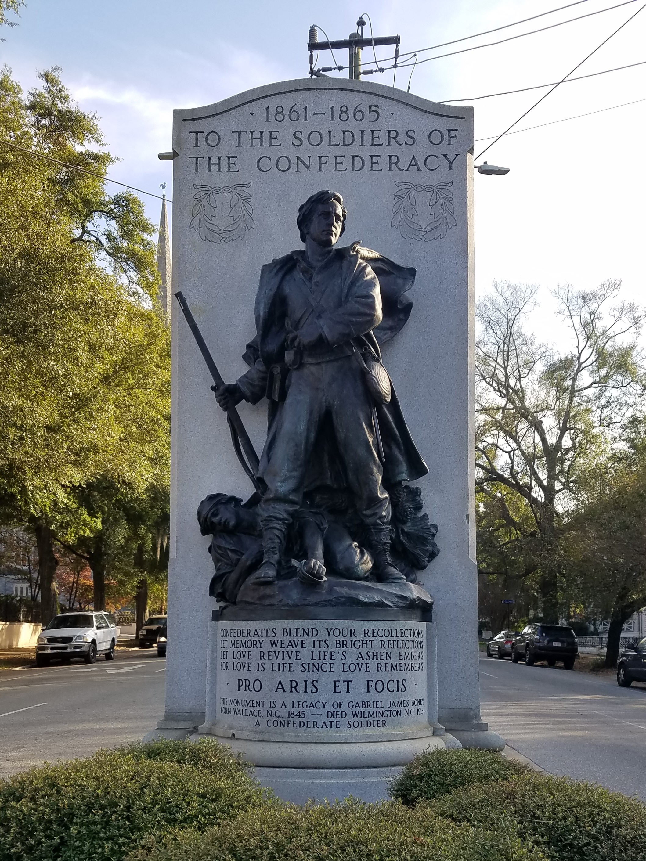 The front side of the Confederate Memorial